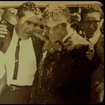 Ruperto Herboso and René Barrientos at the 1966 opening celebration of Mercado Fidel Aranibar in Cochabamba, Bolivia. Herboso was in charge of the mall while Presidente Barrientos came to oversee the mall opening.